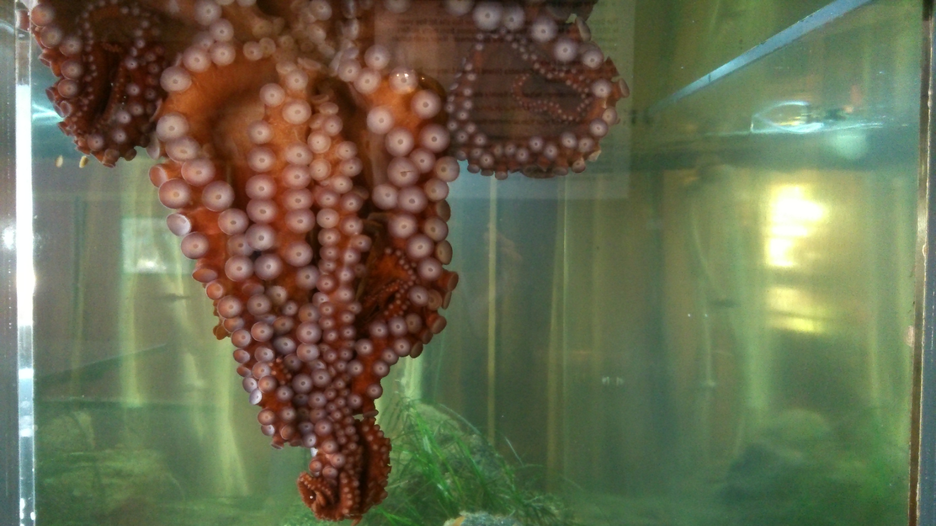 a Giant Pacific octopus in hanging off the tank glass wall